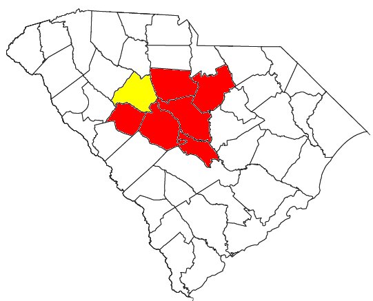 Locator map of the Columbia-Newberry Combined Statistical Area in the central part of the U.S. state of South Carolina. The two components of the CSA are colored separately: Columbia Metropolitan Statistical Area: red Newberry Micropolitan Statistical Area: yellow